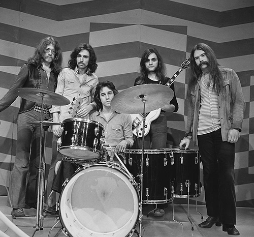 Livin' Blues in AVRO's TopPop (Dutch television show) in 1972